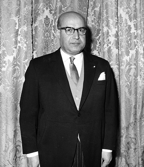 Jafar Sharif-Emami